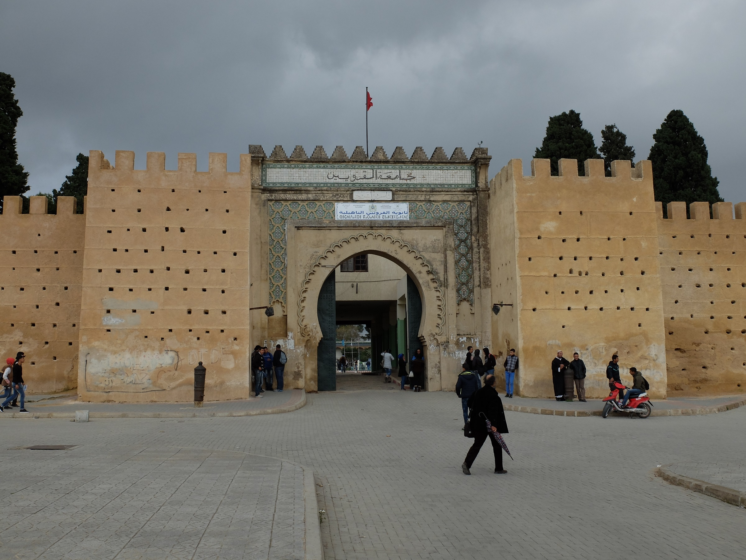 Main (western) gate of Kasbah Cherarda